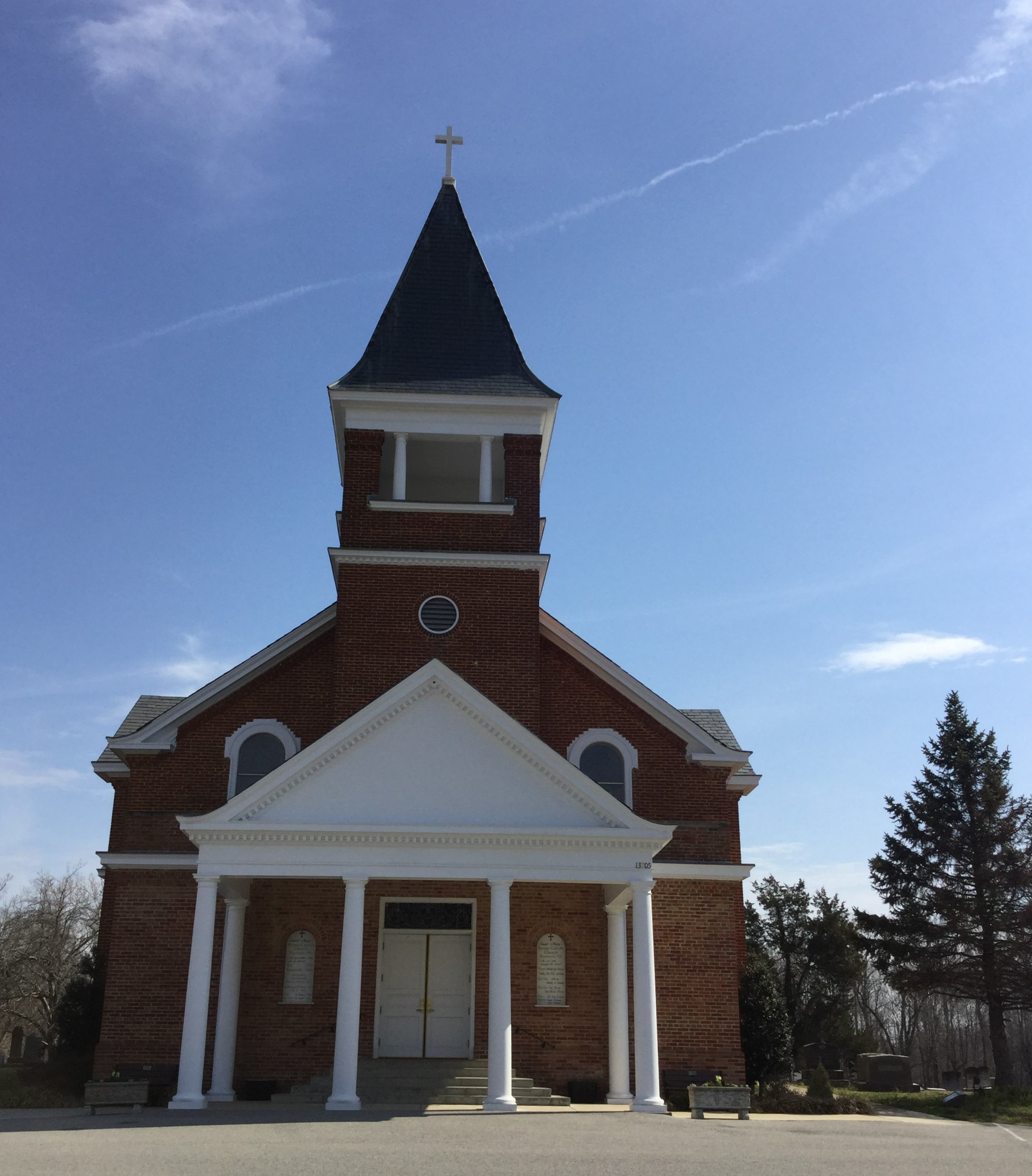 Front View of St Mary, Bryantown, MD